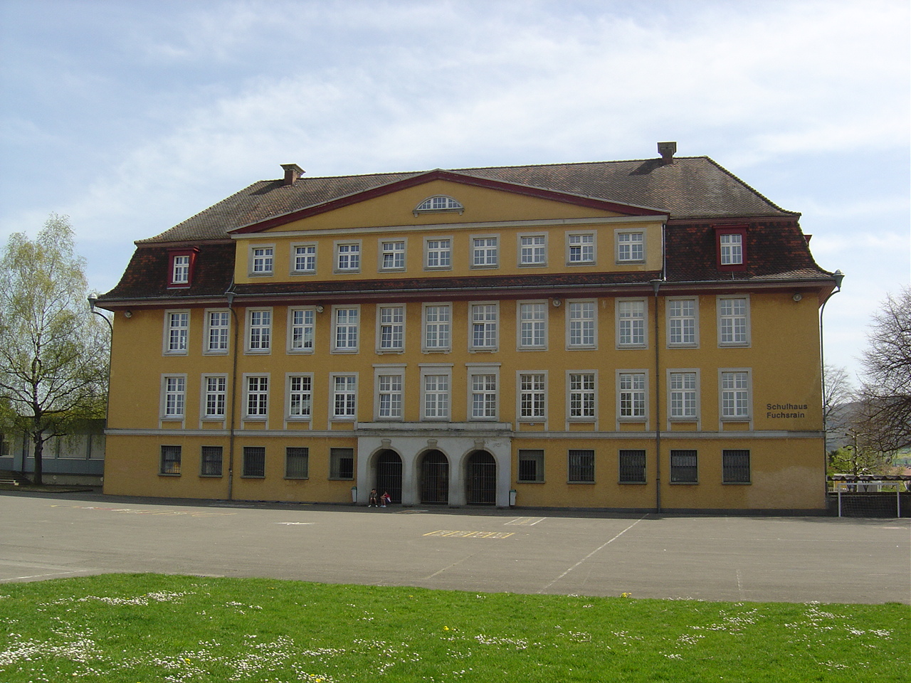 Primary School building, Möhlin